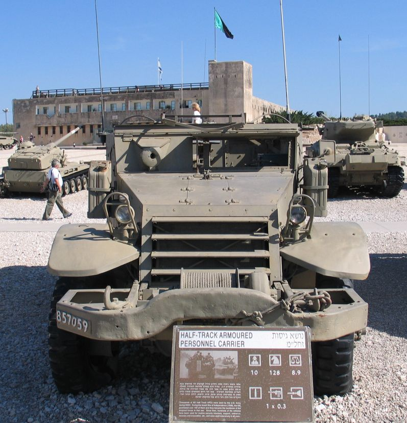 Description: Halftrack (M5/M9) in Yad la-Shiryon Museum, Israel. Source: Photo by me, User:Bukvoed.